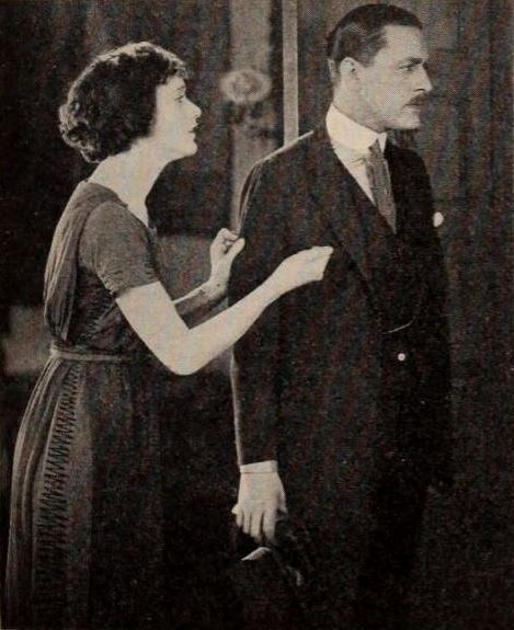 Still from the American comedy romance film Mama's Affair (1921) with Constance Talmadge and Kenneth Harlan, on page 75 of the February 12, 1921 Exhibitors Herald.